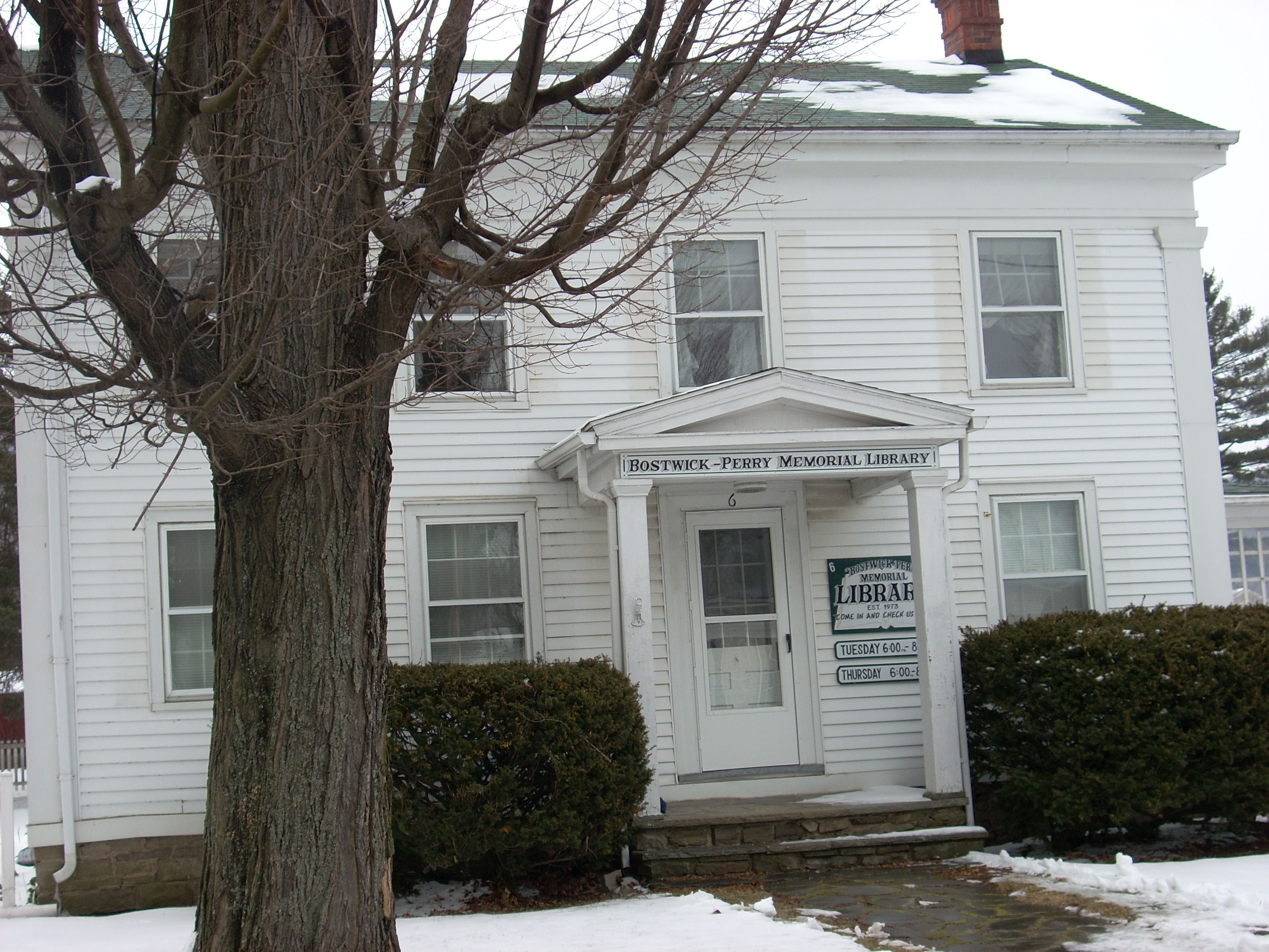 The library in Lawrenceville